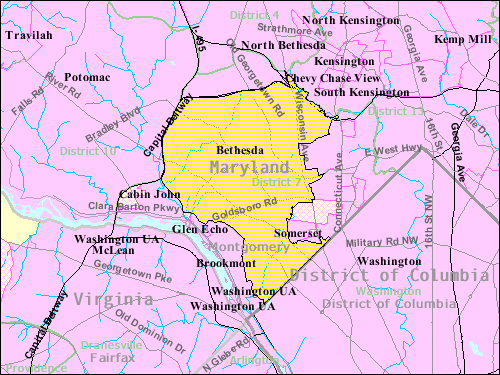 Boundaries of the Bethesda, Maryland, CDP as of 2003